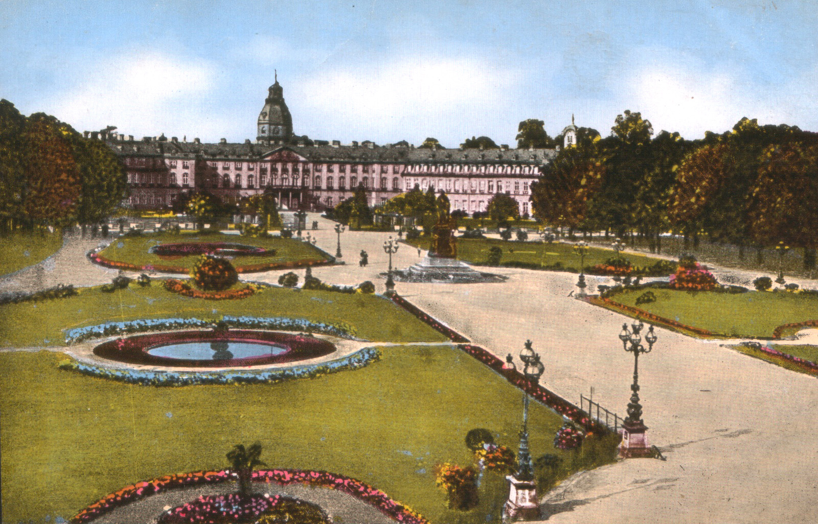 Postcard of the castle in Karlsruhe